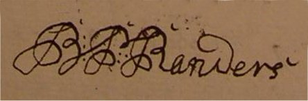 The signature of Bertel Pedersen of Randers who arrived in South Africa when the Crown Princess of Denmark beached at the coast of Mossel bay in june 1752, Author: Palle Kvist